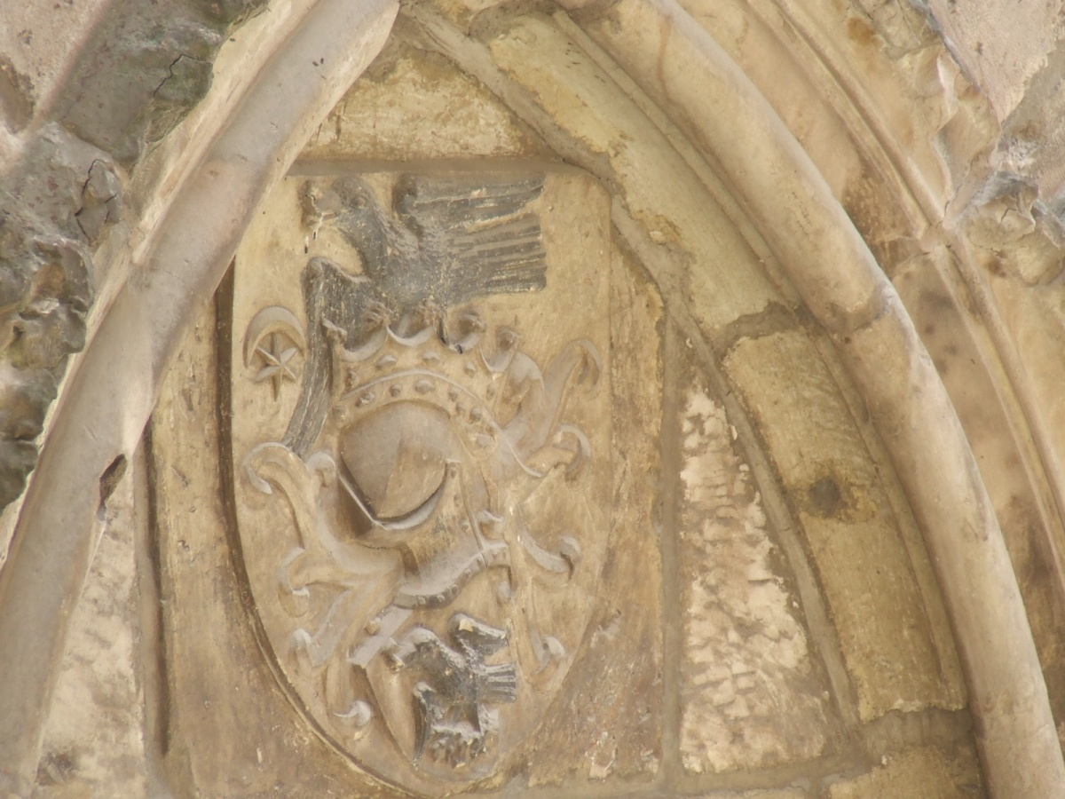 Coat of Arms on the Castle of Hunedoara (also known as Corvins' Castle), Hunedoara County, Romania